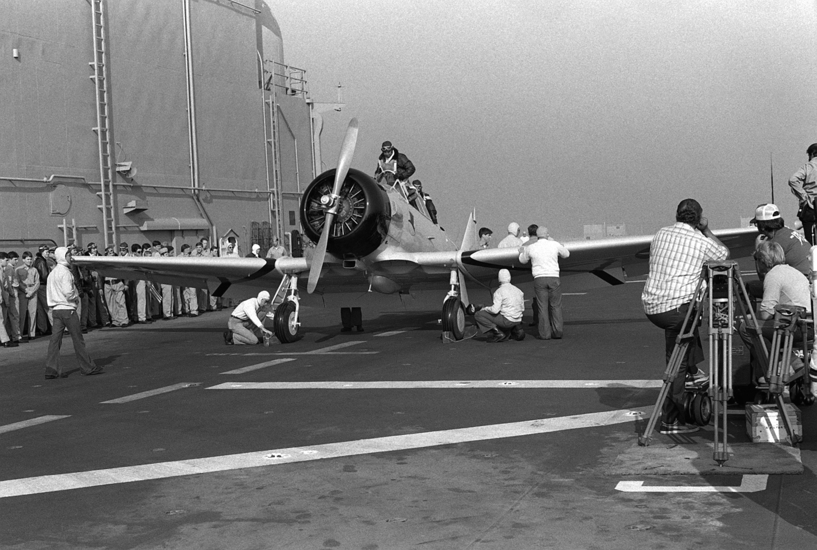 Actors from Paramount Studios and crewmen with a North American T-6 Texan trainer aircraft used to simulate a Douglas SBD Dauntless dive bomber during a scene from the TV miniseries "The Winds of War" taking place aboard the amphibious assault ship USS Peleliu (LHA-5) in December 1981. The Peleliu was being used to simulate the World War II aircraft carrier USS Enterprise (CV-6) in Part VII "Into the Maelstrom" in late 1941. Several crewmen from the ship were used as "extras" in the Paramount Studios film. The T-6 is painted in the colourful pre-1941 markings and is coded "3-B-10", wearing the emblem of VB-4 "High Hatters". The scenes were mixed with real scenes from the 1941 movie "Dive Bomber" which was filmed aboard Enterprise. In this movie VB-3 aircraft also wore the VB-4 emblem.